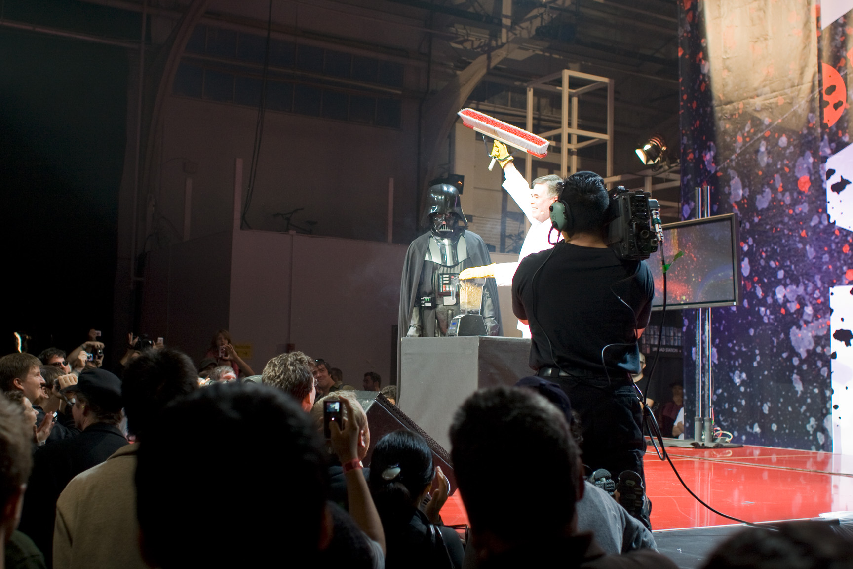 Chad Vader with "Will it Blend" at 2008 YouTube Live